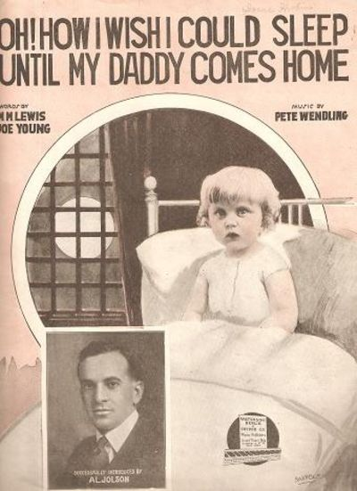 "Oh How I Wish I could Sleep Until My Daddy Comes Back Home" sheet music cover.